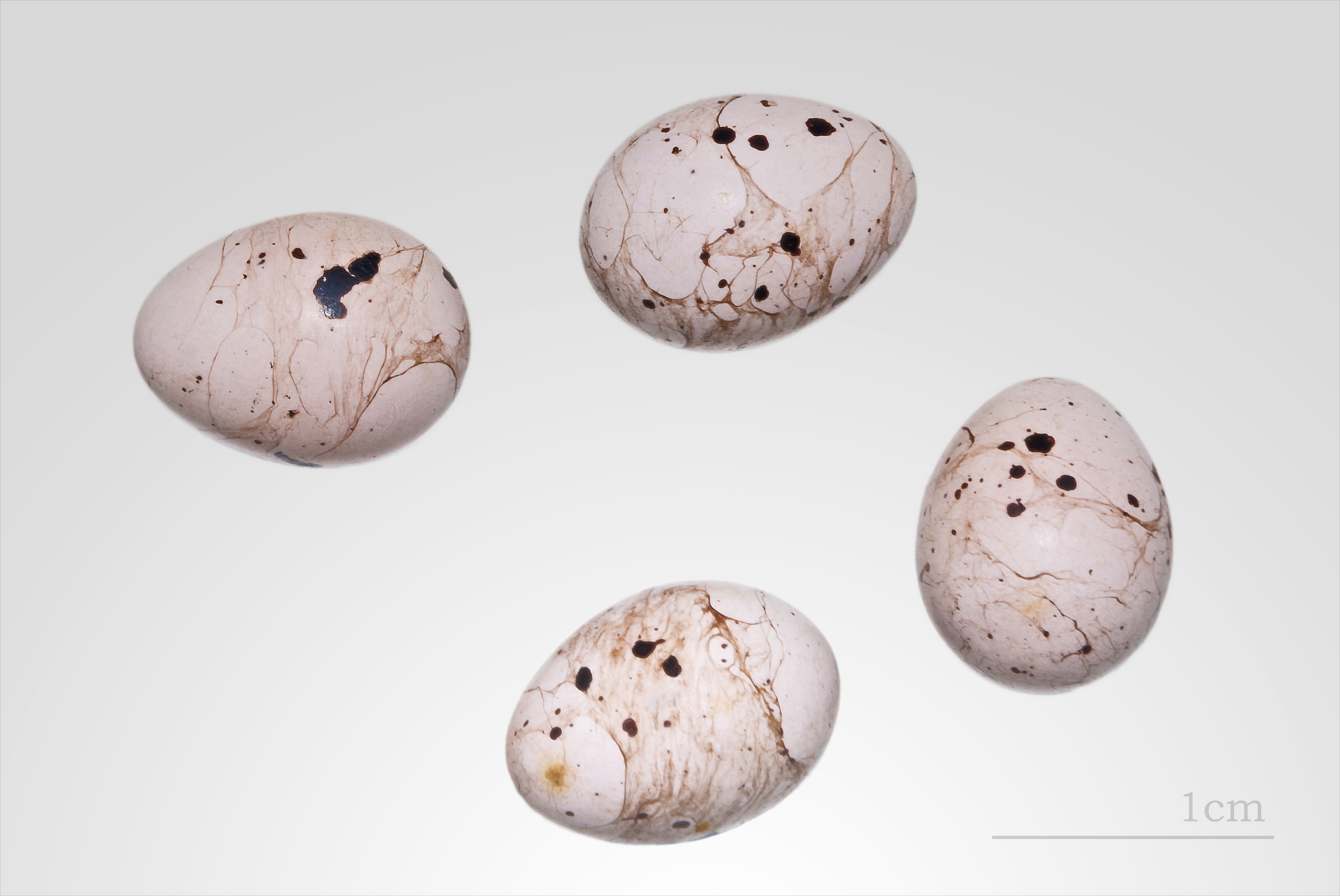 Egg of Melodious warbler. Collection of Henri Heim de Balsac /Jacques Perrin de Brichambaut